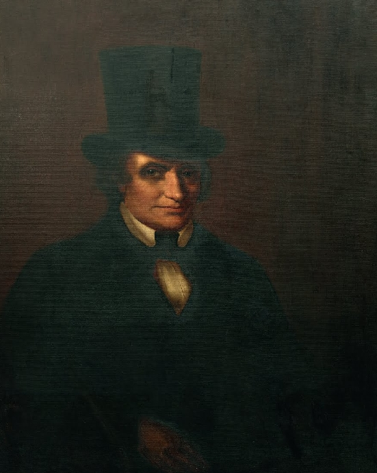 James Pleasants, Senator and Governor of Virginia